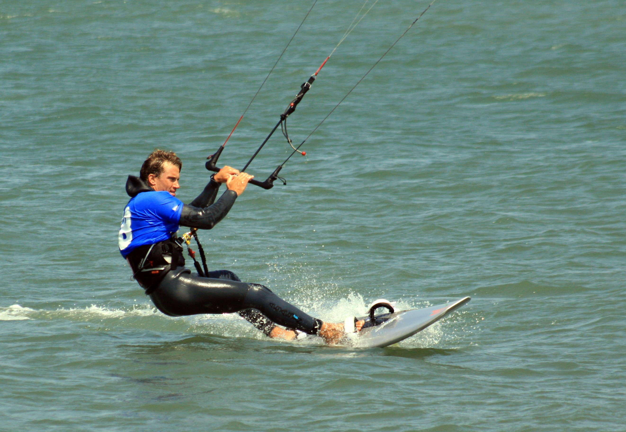 Kitesurfer